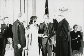 The photo contact sheet, identified as A3597 by the White House Photographic Office (WHPO), is housed at the Gerald R. Ford Presidential Library, a branch of the National Archives and Records Administration (NARA). This file is a 200 dpi photo contact sheet having images from roll of film A3597 of the August 9, 1974 - January 20, 1977 Gerald R. Ford White House Photographic Office Series A0001-A9999 and B0001-B2886 photographs. The date on the photo contact sheet is the date the roll of film was processed, not necessarily the date the photographs were taken. See table below for additional details.